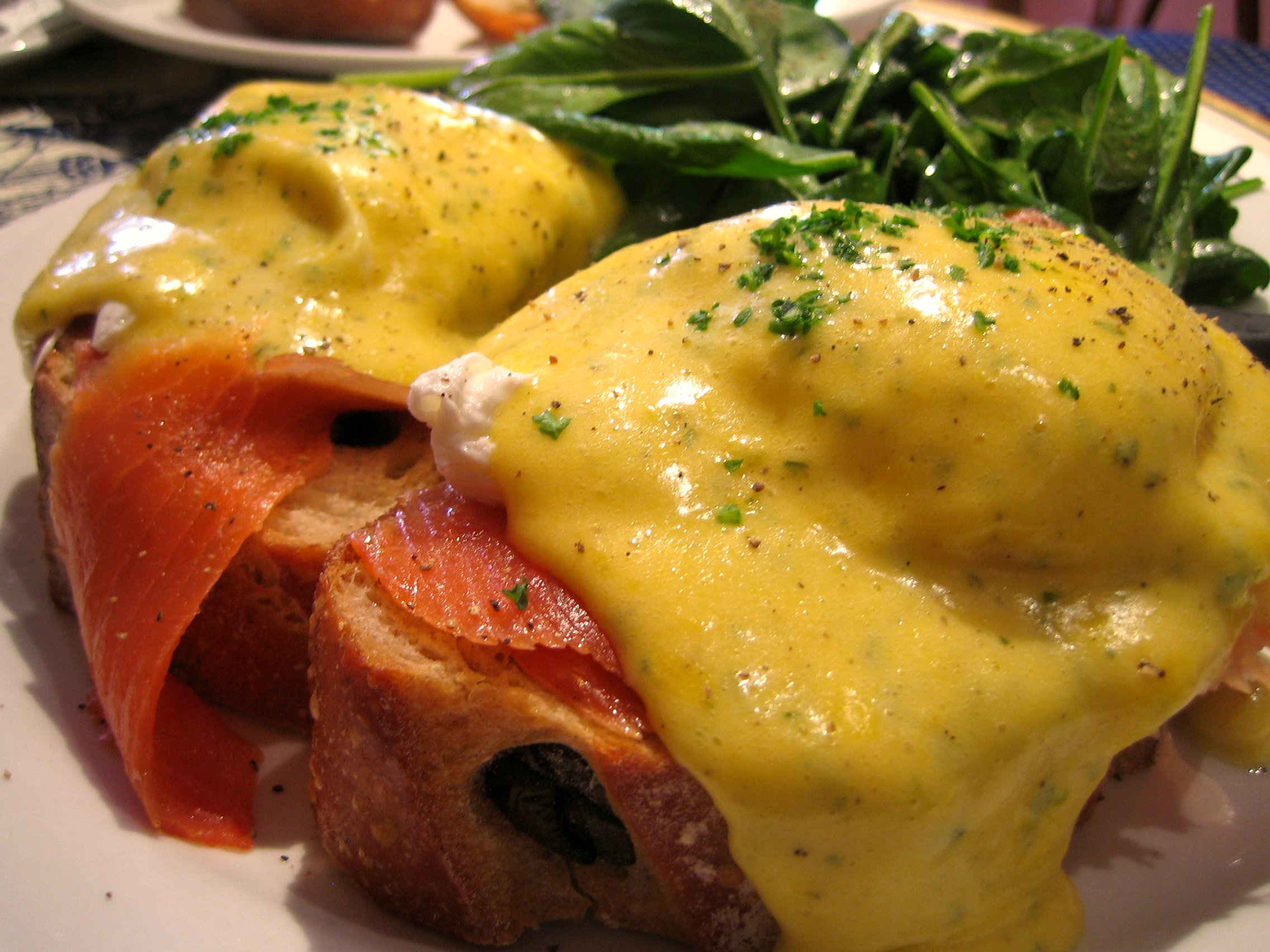 Smoked salmon eggs Benedict with a baby spinach salad as served by The Butler and the Chef Bistro at 155A South Park Street in the South Park neighborhood of San Francisco, California, USA. According to their online menu as viewed on 2009-08-11, they serve their eggs Benedicts with ham, smoked salmon, or as vegetarian. "Two organic poached eggs with your choice of Niman Ranch ham, smoked salmon, or tomatoes, basil & herbs covered with fresh-made hollandaise sauce. Served on toasted organic olive bread with an organic baby spinach salade".